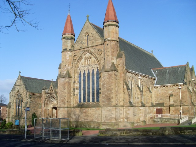 Sherbrooke St Gilbert Church Another fine view of the Nithsdale Street church.